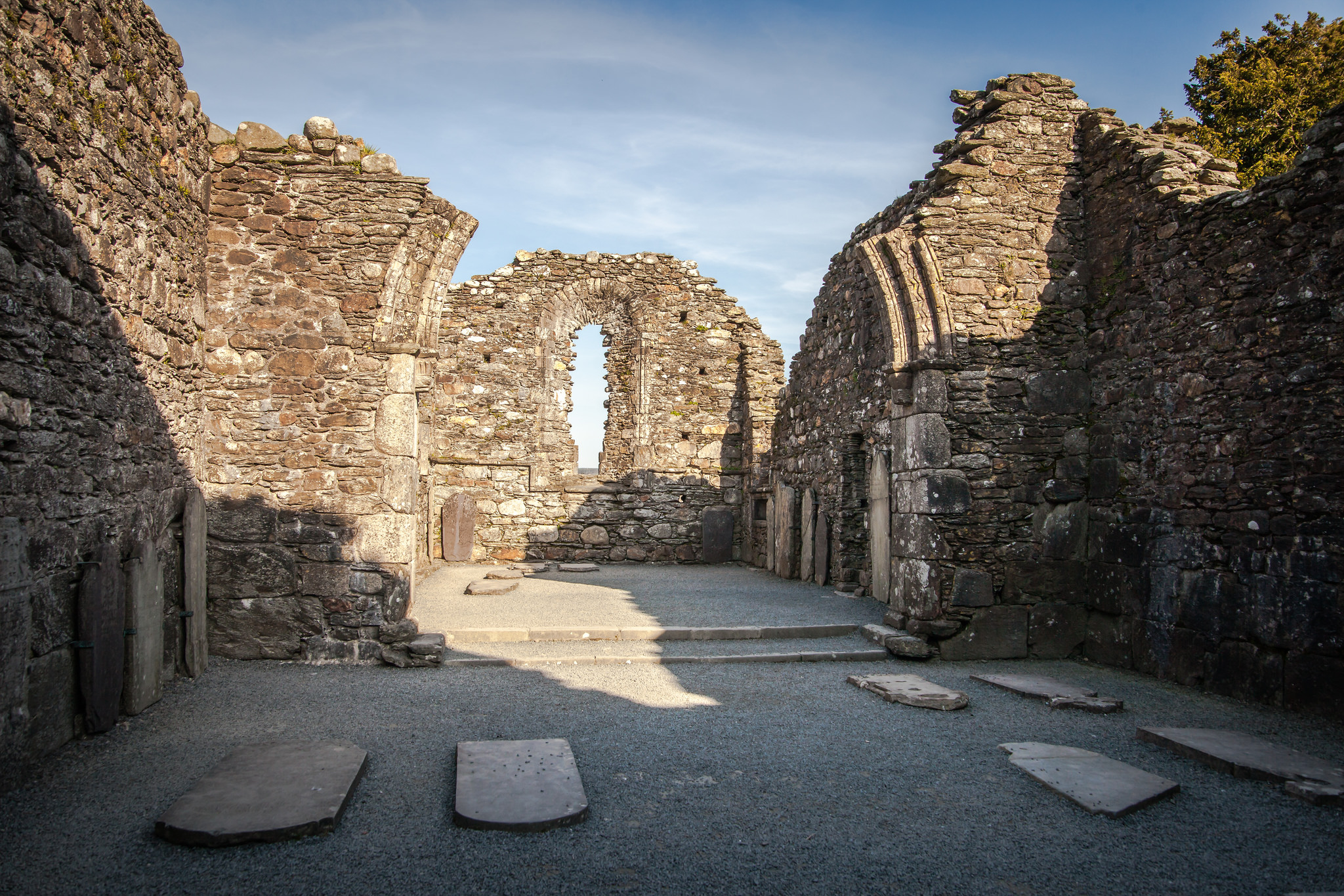 Glendalough